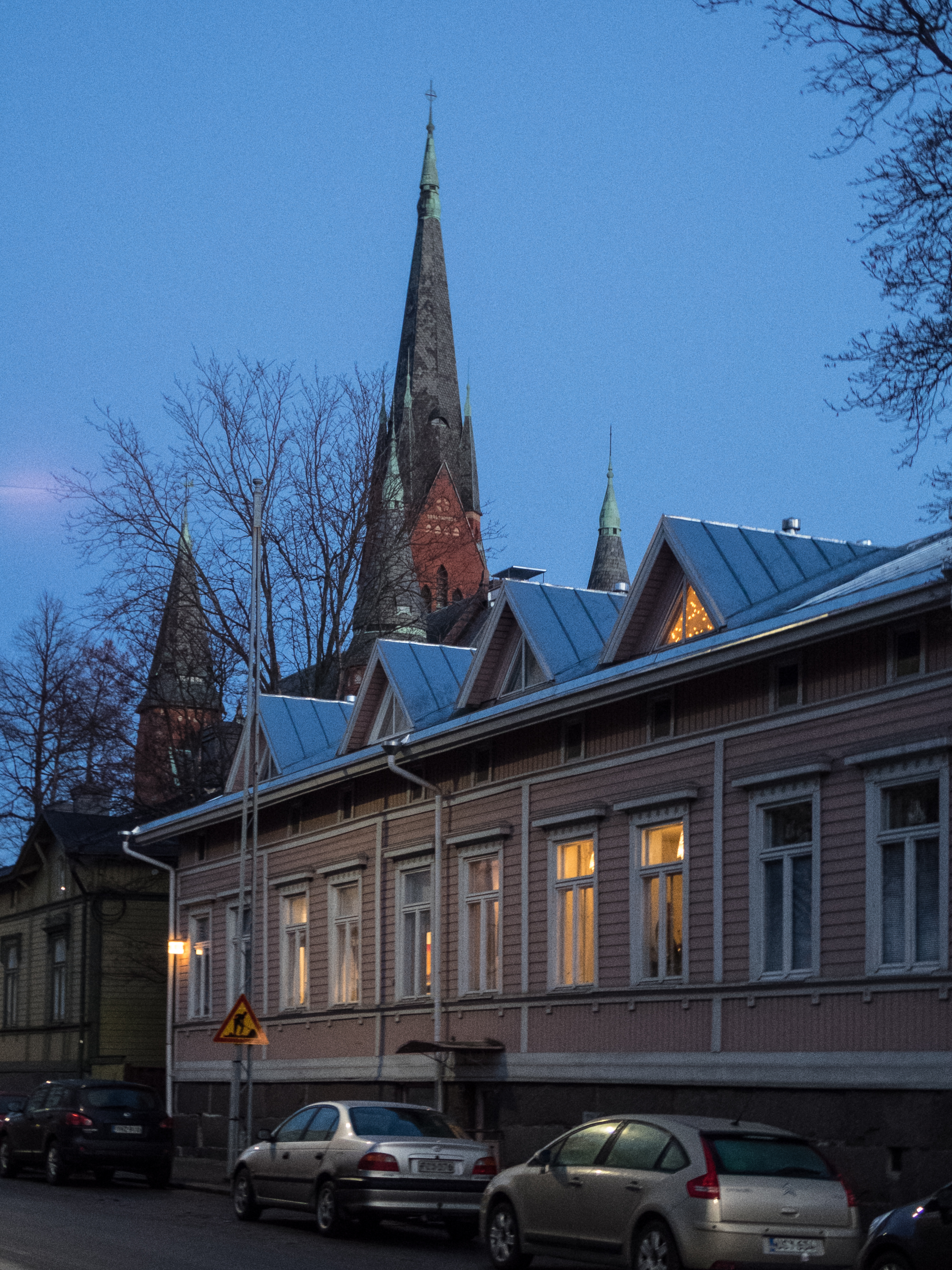 St Michael church (Mikaelinkirkko) and old wooden row houses in Port Arthur, Rauhankatu street, Turku, Finland.